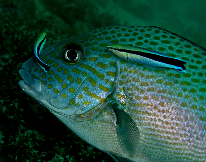 Sweetlips being cleaned by cleaner wrasse, Labroides dimidiatus